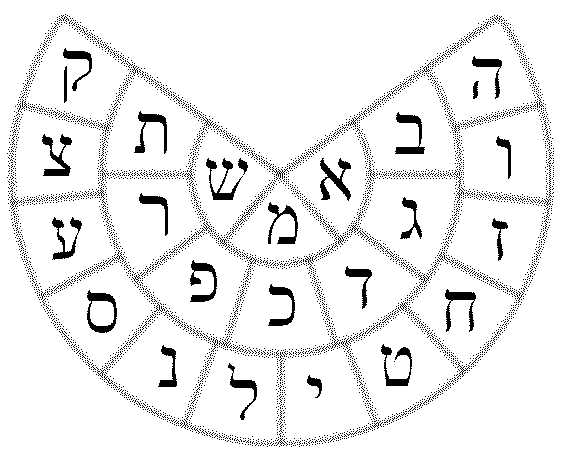 Letters of Hebrew alphabet in Sepher Yetzirah categories.